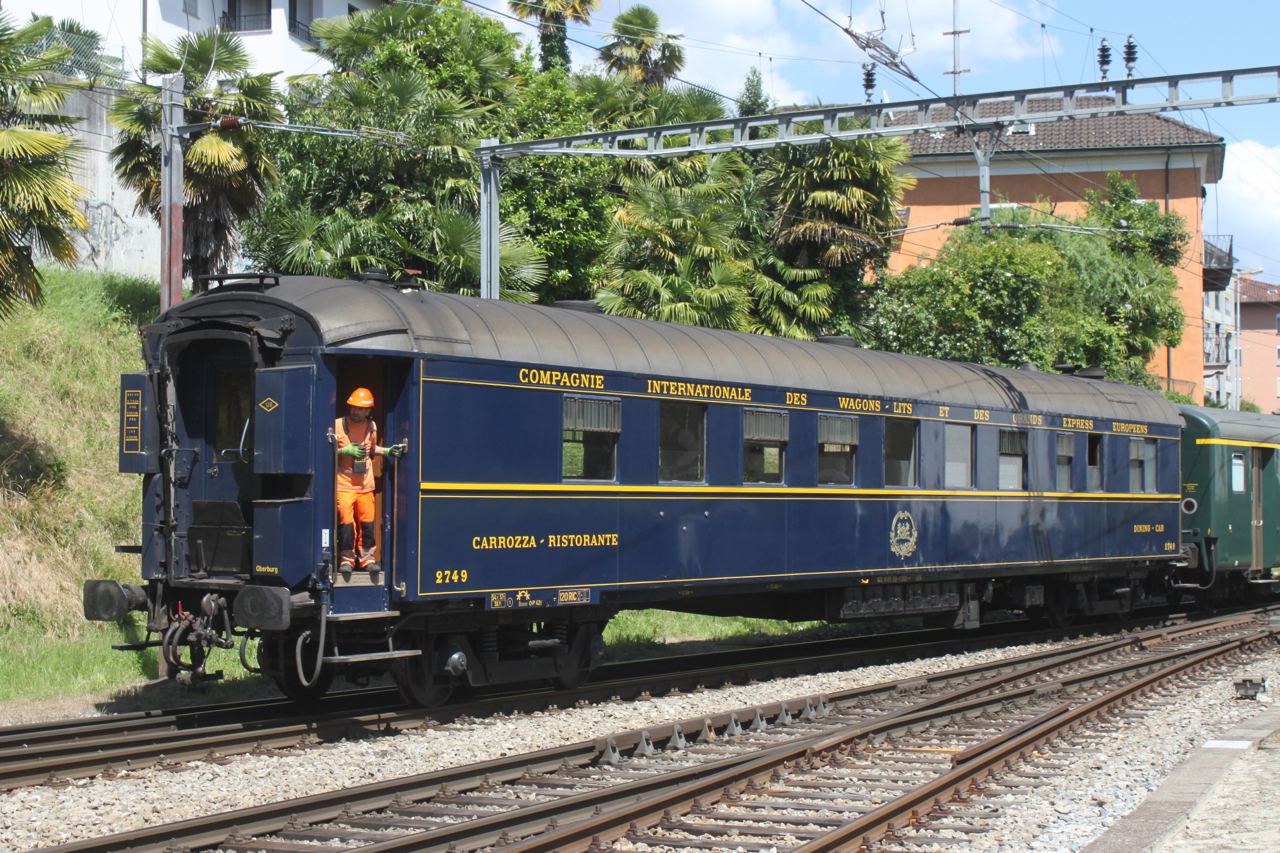 WR 51 85 08-11 800-8P at Locarno train station.